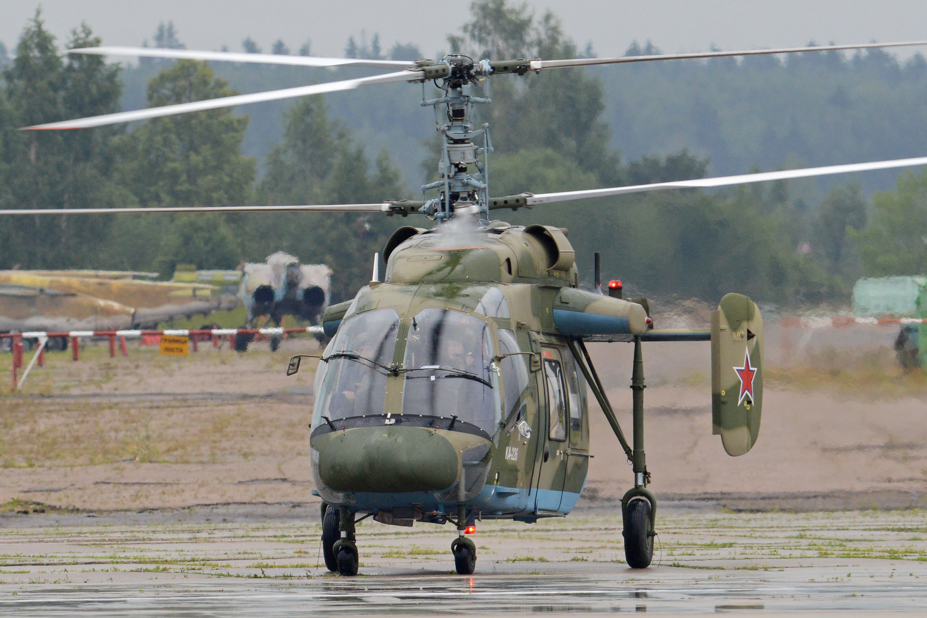 There was no visible identity on this camouflaged Ka-226, which was seen taxiing during the ARMY 2017 event. Kubinka Airbase, Moscow Oblast, Russia. 23rd August 2017